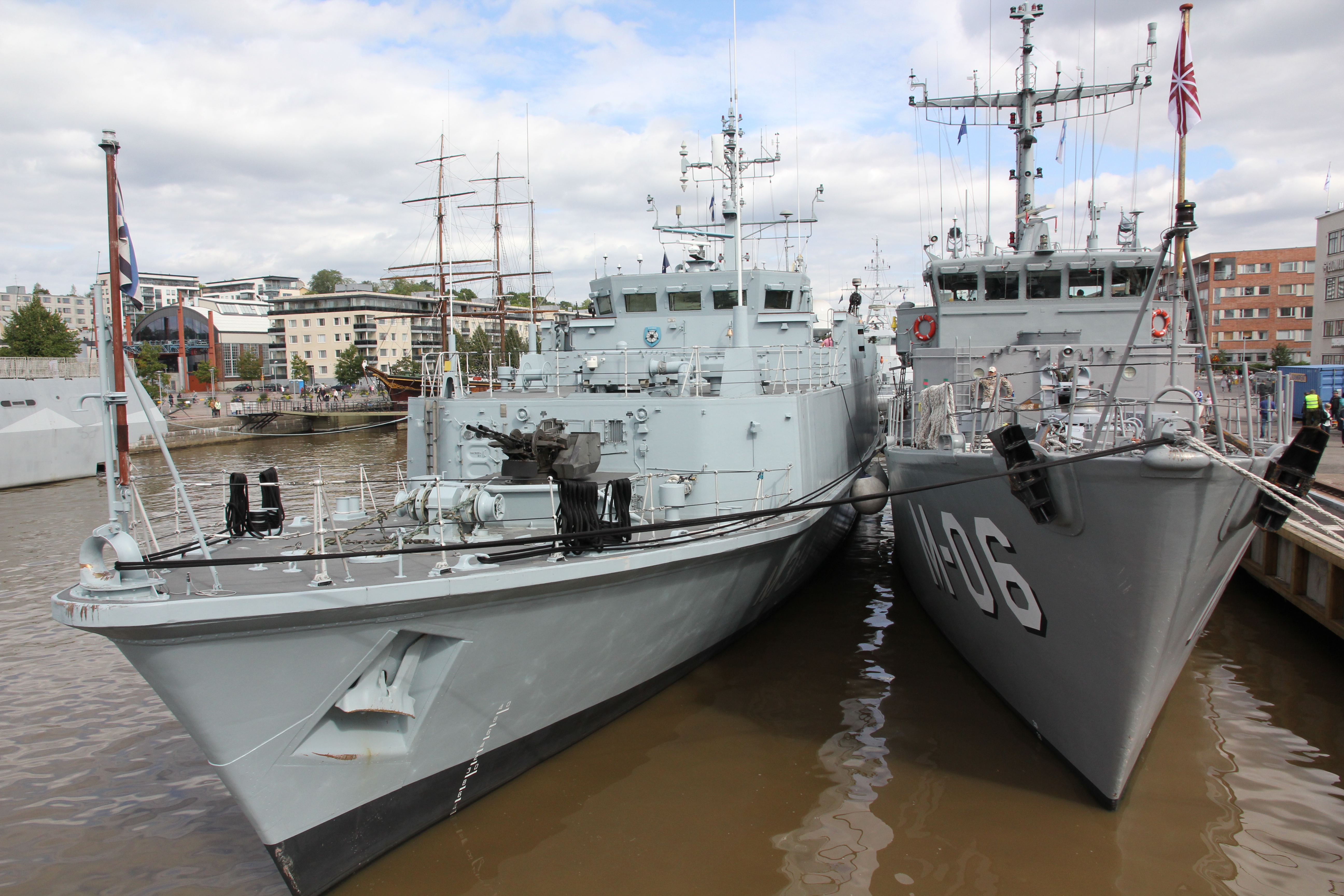 Latvian Tripartite-class minehunter M-06 Tālivaldis and Estonian Sandown-class minehunter M314 Sakala photographed during the Northern Coasts 2014 exercise public pre sail event in Aura river in Turku.